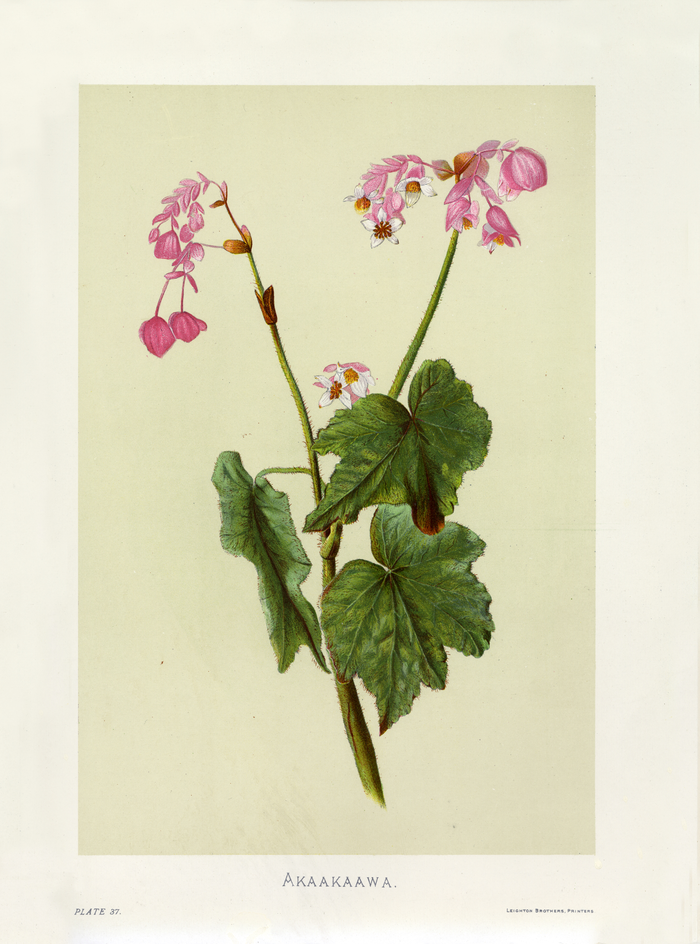 Indigenous Flowers of the Hawaiian Islands by Mrs. Frances Sinclair, Plate 37 (Hillebrandia sandwicensis)